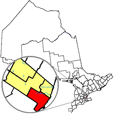 Uploaded so filename matches that required of Template:Canadian_City. A newer, better looking version could hopefully be uploaded overtop later.